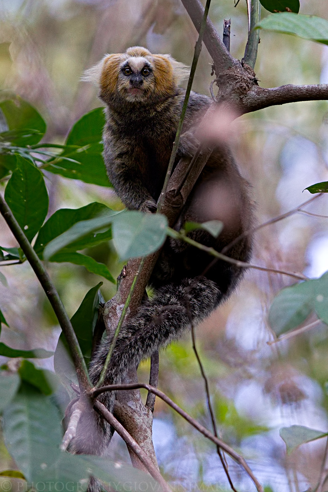 Buffy-headed marmoset in Caratinga, Brazil.